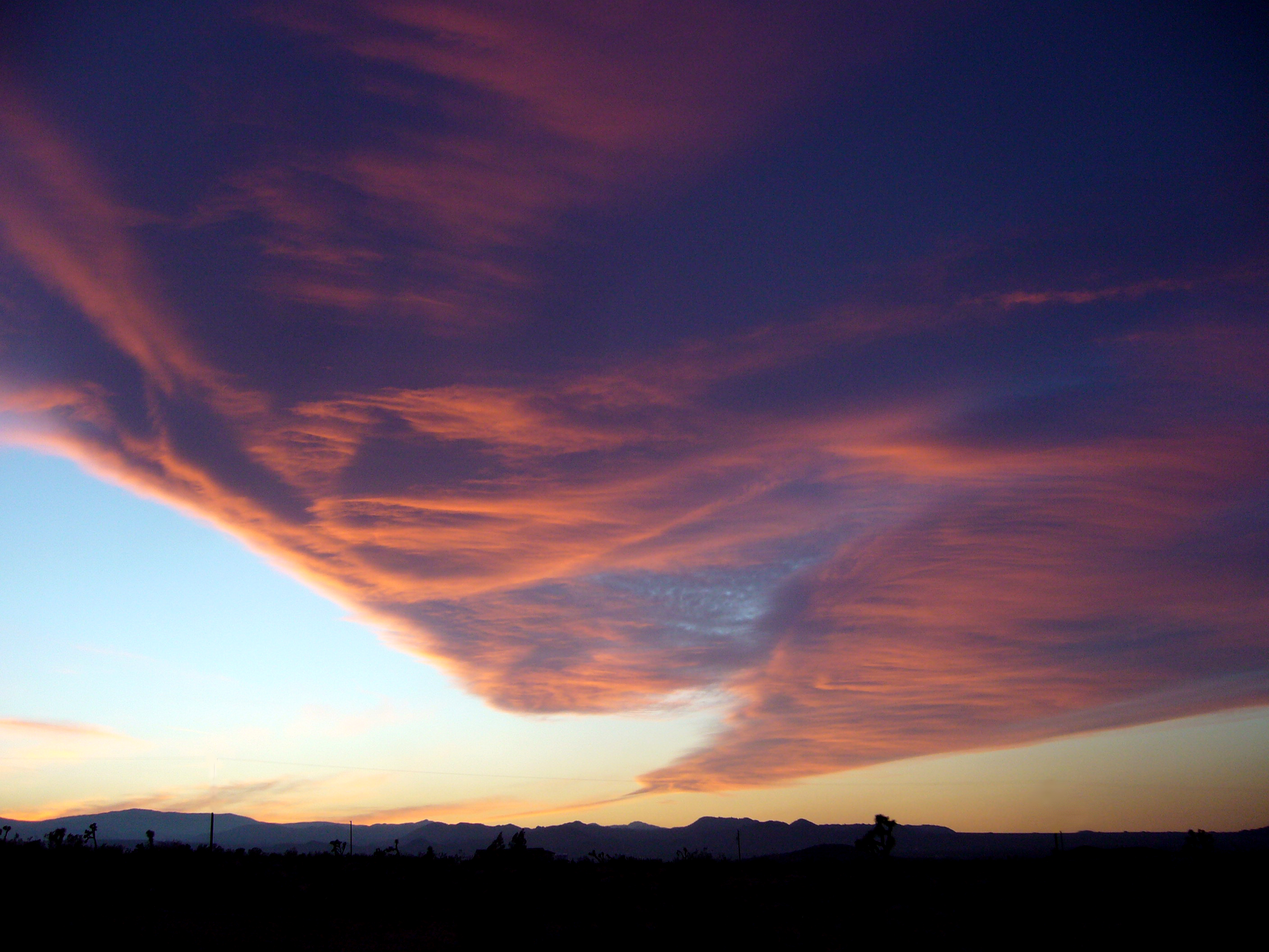 Orographic lift at evening Twilight Joshua Tree, California USA